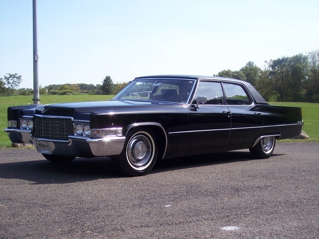 This is a picture of a vehicle (name of it is on the file name).